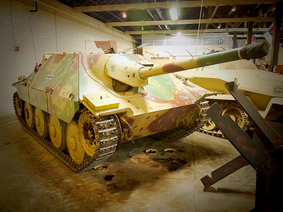 Jagdpanzer 38t Hetzer, exhibited in the Texas Military Forces Museum" in Austin, TX, USA